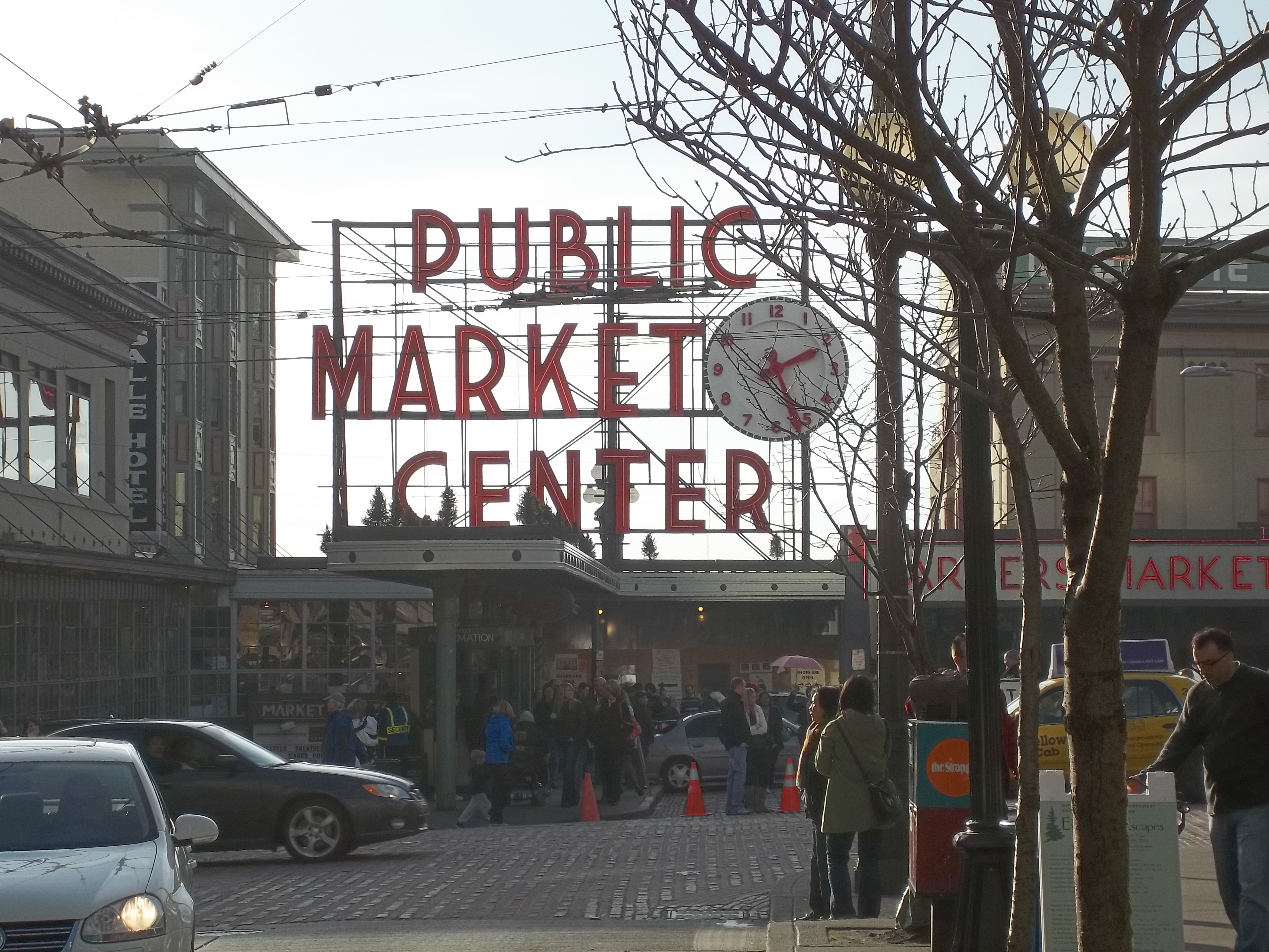 Public Market Center sign, taken at 2:26 in the afternoon.